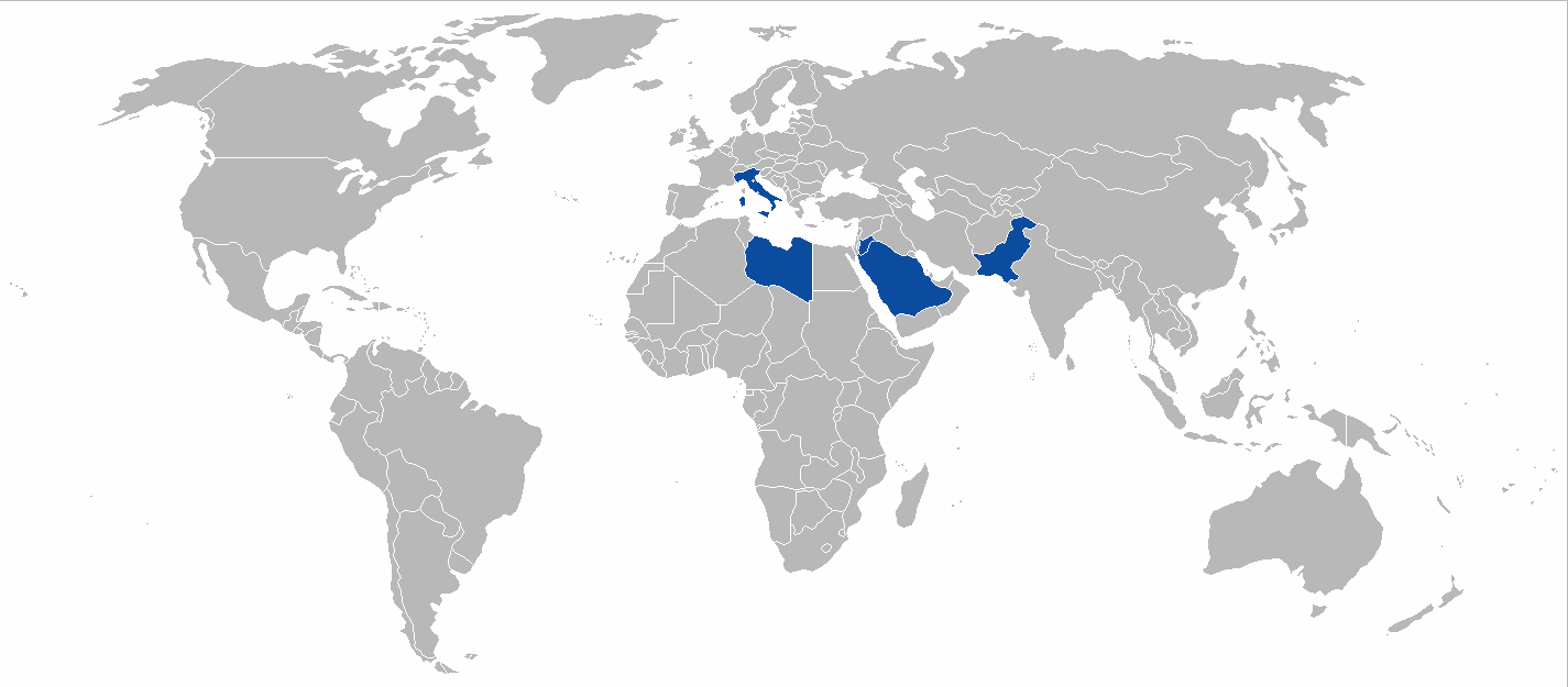 World operators of Falco and Falco Evo as of September 2012